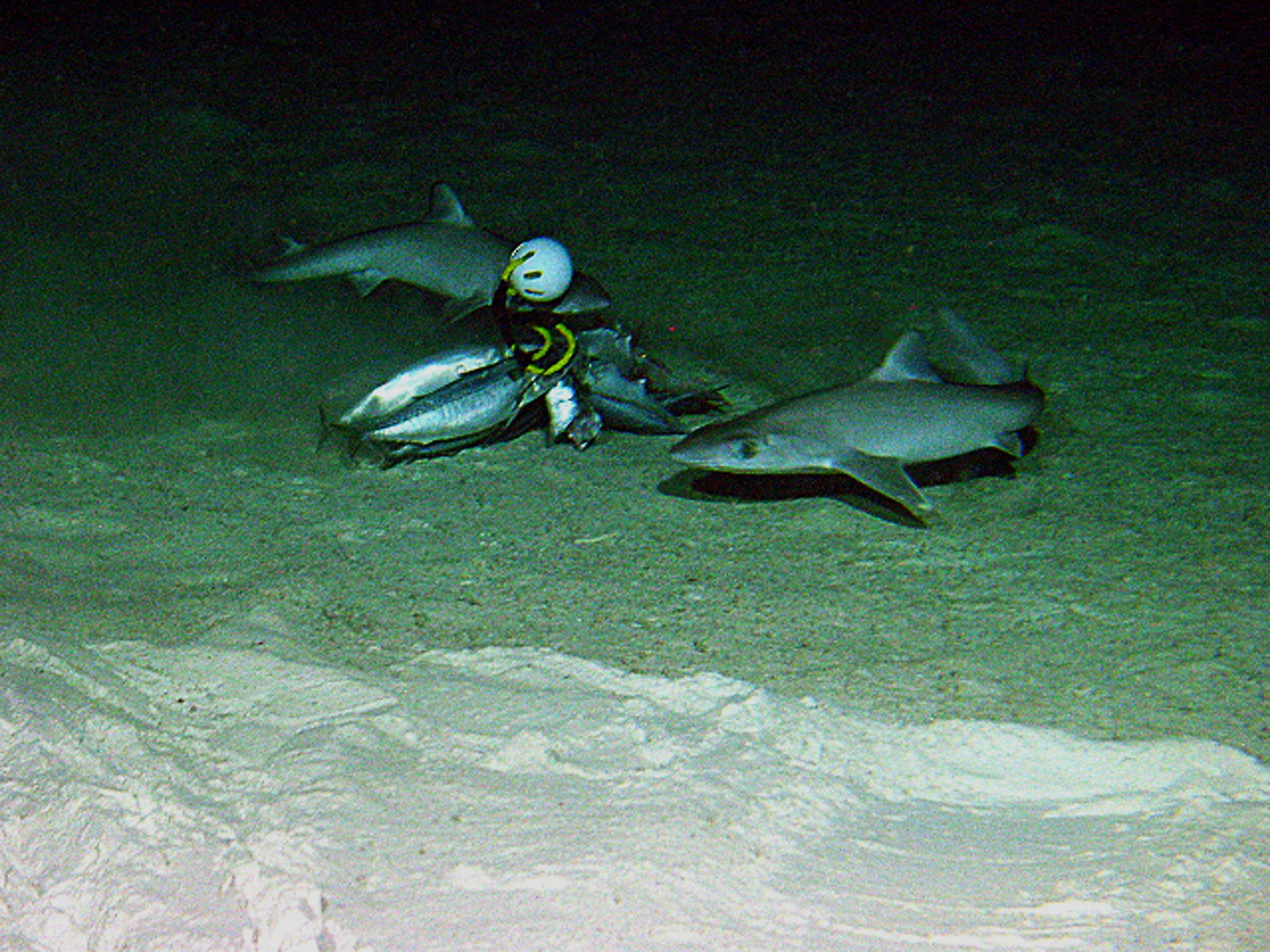 Shortspine spurdogs (Squalus mitsukurii) at Hawaii, Northwest Hawaiian Islands